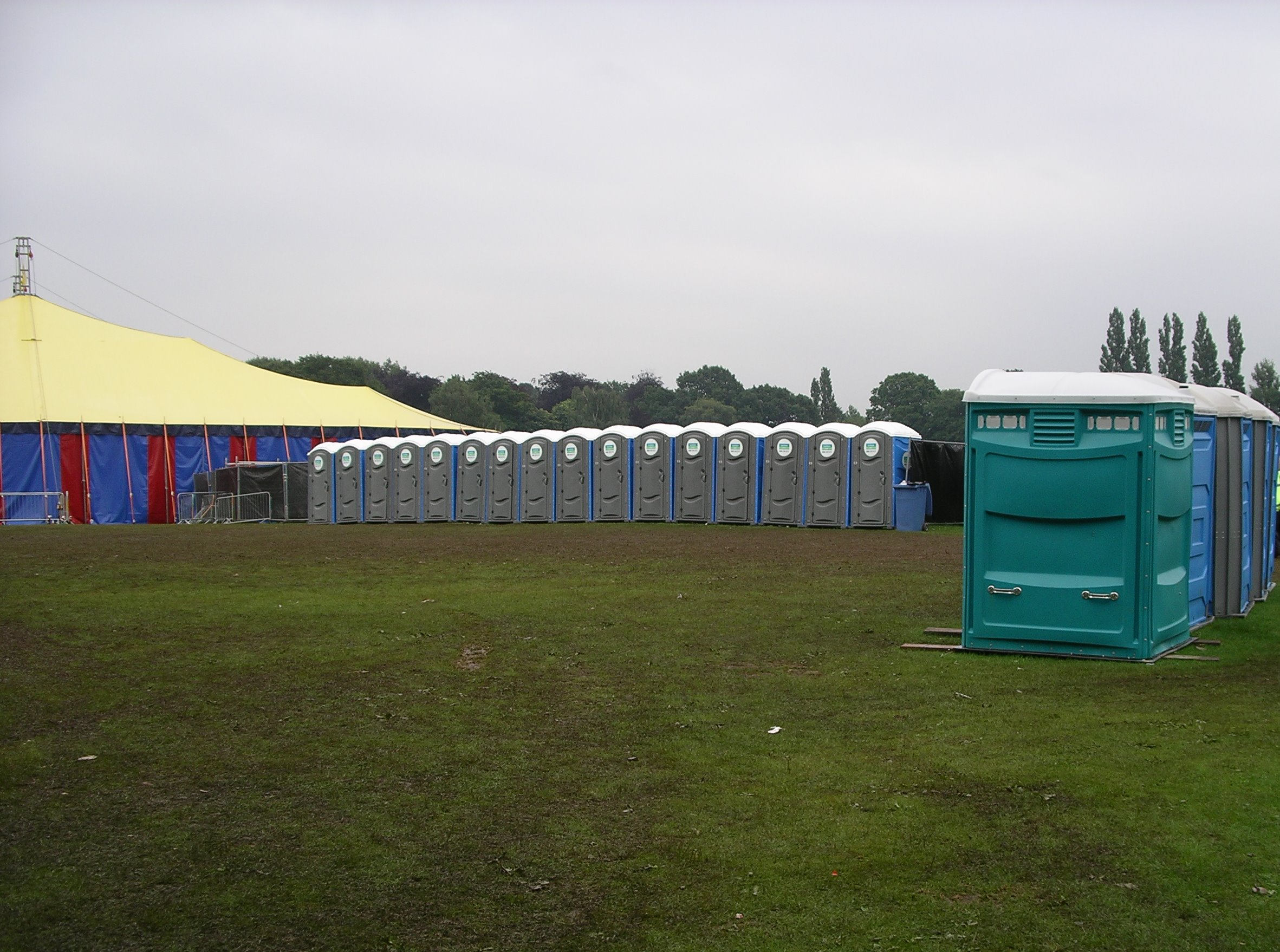 Photograph of temporary toilet units which were brought on-site for the Godiva Festivial, Coventry England. The photo was taken hours after the festival had ended and when most people had gone home.